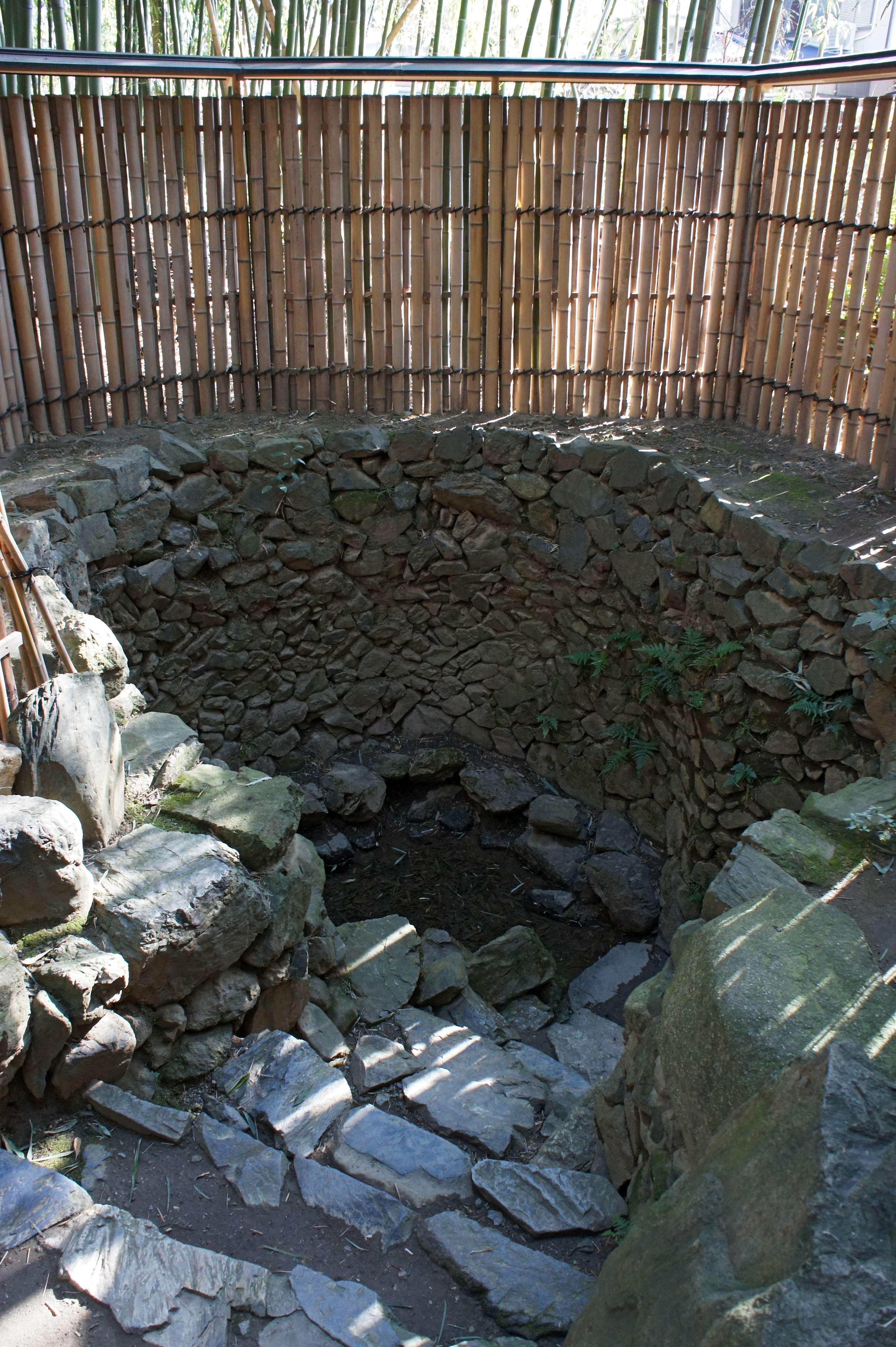 Zuishin-in in Kyoto, Kyoto prefecture, Japan